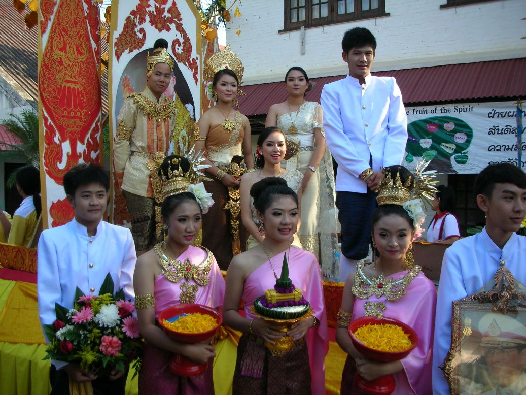 Chiang Rai Witthayakhom School 2012 Sports Day parade